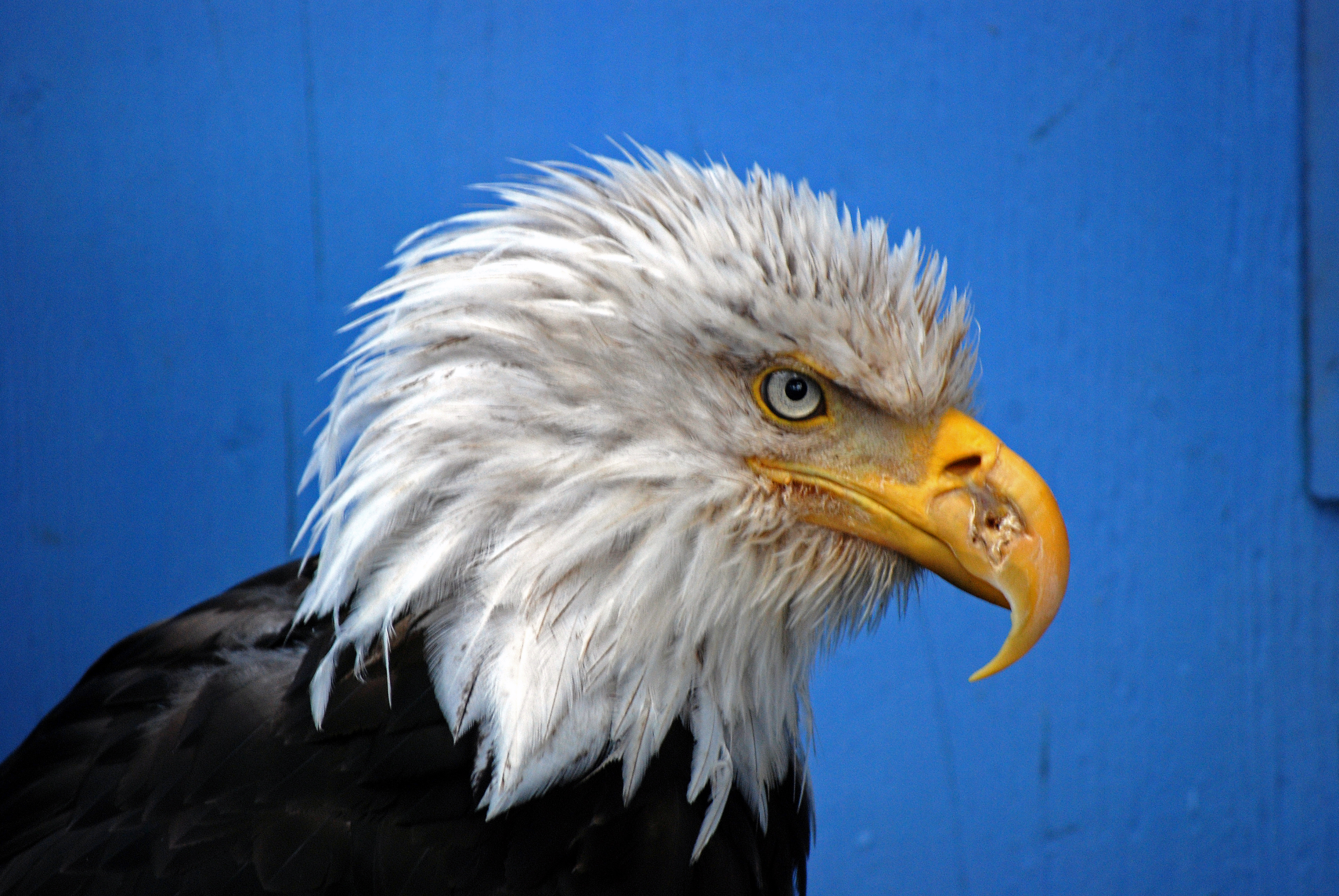 A rehabilitating eagle residing in the Juneau Raptor Center habitat at the top of the Mount Roberts Tramway